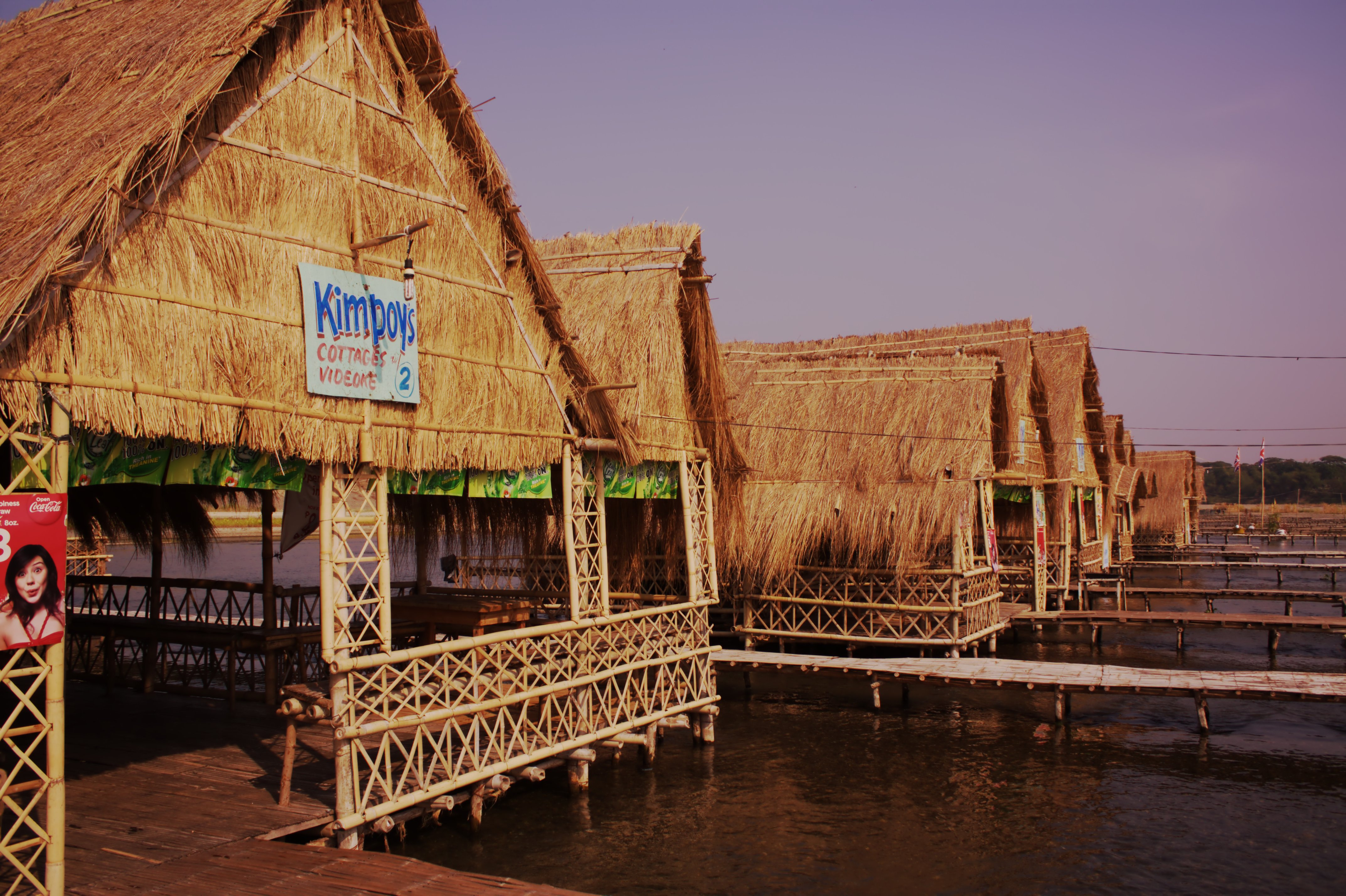 Kimpoy's Nipa Hut, Barrio Uno River Resort, Sarrat, Ilocos Norte, Philippines